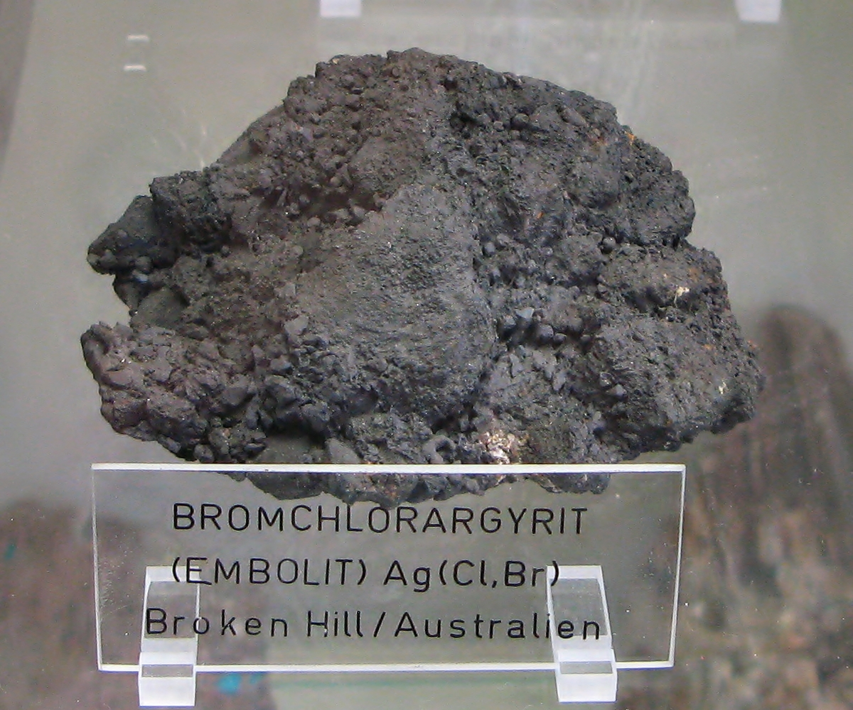 Bromchlorargyrite, variety of Chlorargyrite, containing Bromine - Locality: Broken Hill, Australia - Exposed in the Mineralogical Museum, Bonn, Germany